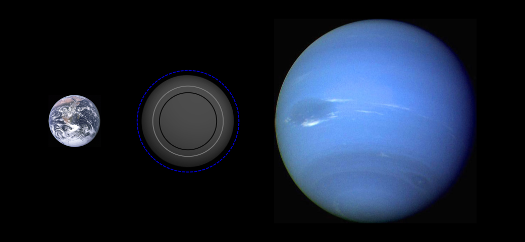 Comparison of several possible sizes for the exoplanet Gliese 581 g with the Solar System planets Earth and Neptune, using approximate models of planetary radius as a function of mass[1] for several possible compositions, based on mass reported in the Open Exoplanet Catalogue[2] as of 2014-06-27. Models include: water world with a rocky core, composed of 75% H2O, 3% Fe, 22% MgSiO3 hypothetical pure water (ice) planet, the largest size for Gliese 581 g without a significant H/He envelope rocky terrestrial "Earth-like" planet, composed of 67% Fe, 32.5% MgSiO3 hypothetical pure iron planet, Gliese 581 g's theoretical smallest size Gliese 581 g is not likely to be smaller than the iron planet, and will be considerably larger than the water planet if significant H or He is present. For non-transiting planets, all modeled sizes will be underestimates to the extent that the planet's actual mass is larger than the reported minimum mass. ↑ Seager, S.; M. Kuchner, C. A. Hier-Majumder and B. Militzer (2007). "Mass–radius relationships for solid exoplanets". The Astrophysical Journal 669: 1279–1297. Retrieved on 2010-08-27. ↑ Open Exoplanet Catalogue (2010-09-30). Retrieved on 2010-09-30.